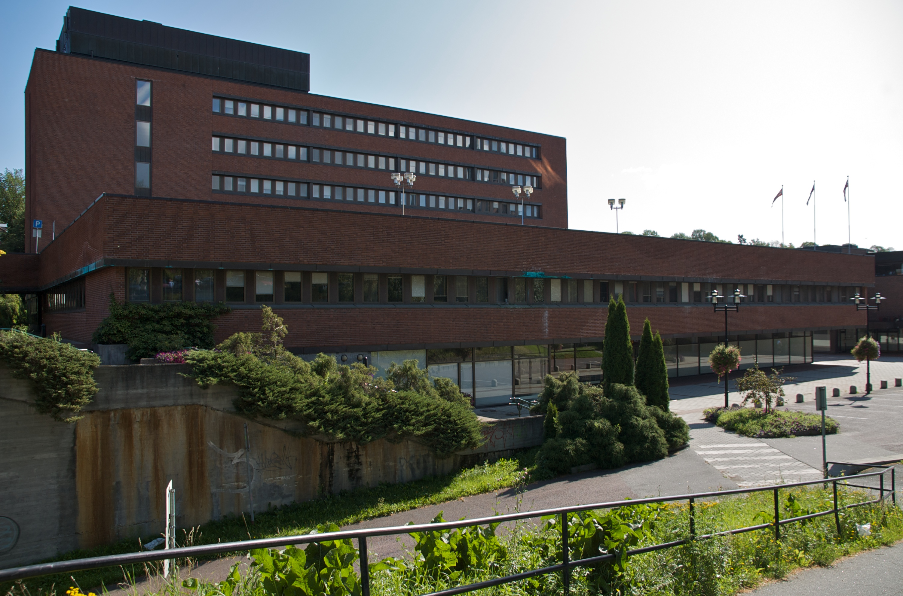 Building in Kverndalen, Skien, Norway. Address: Kongensgate 31